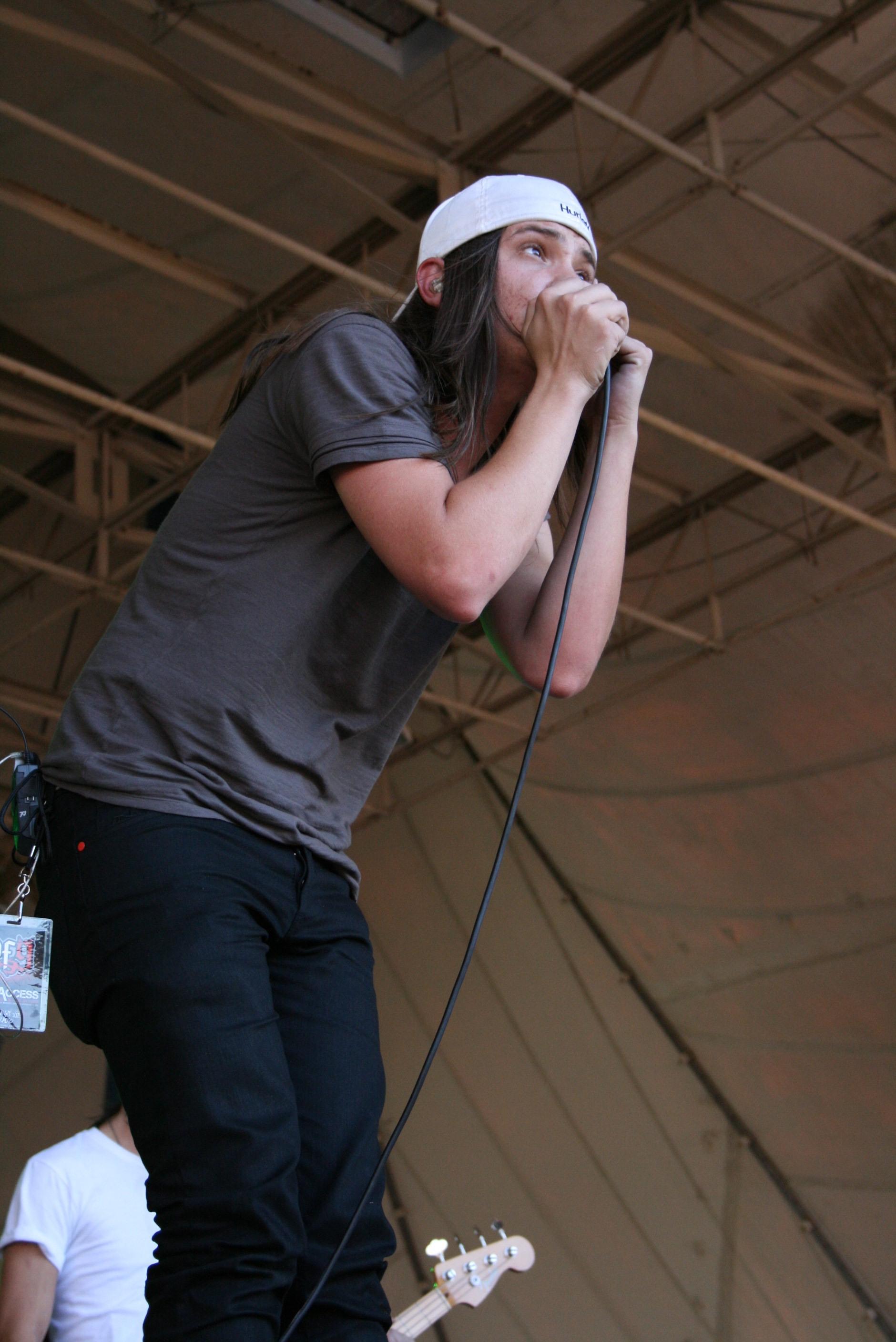 Ronnie Winter, Red Jumpsuit Apparatus frontman, in 2006 Jacksonville concert